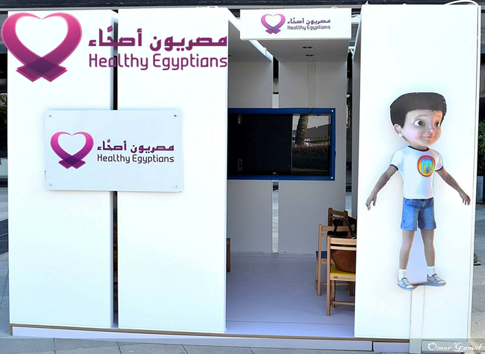 Portable Child Cinema created by Healthy Egyptians to roam the country and screen its health educational cartoon Montasser Overcomes Pneumonia.